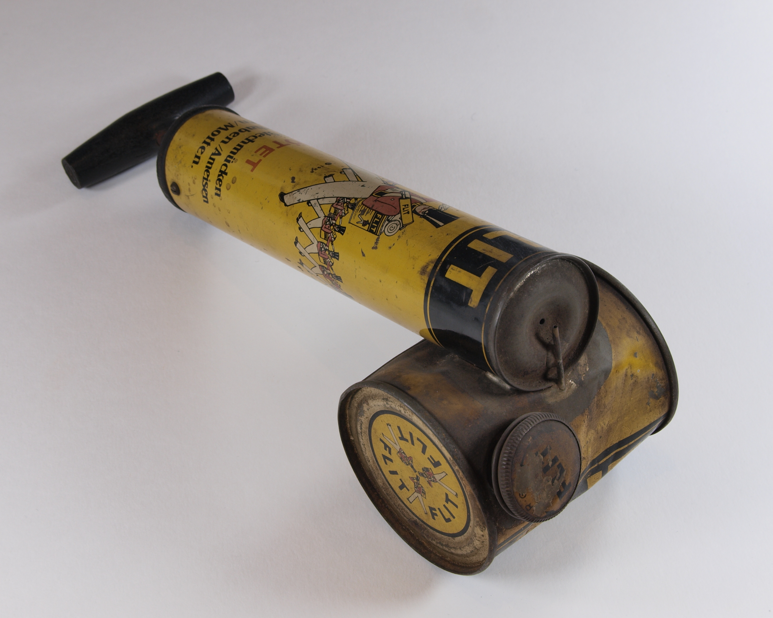 FLIT spray pump for insecticide of Stanco Incorporated, Bayway, New Jersy, USA. Made in Germany. 1928. Aquisition No. 1973,251. This specimen in a museum in Hamburg, Germany, bears inscriptions in German. Length: 285 mm (11.2 in). Height: 115 mm (4.5 in). Width: 95 mm (3.7 in).